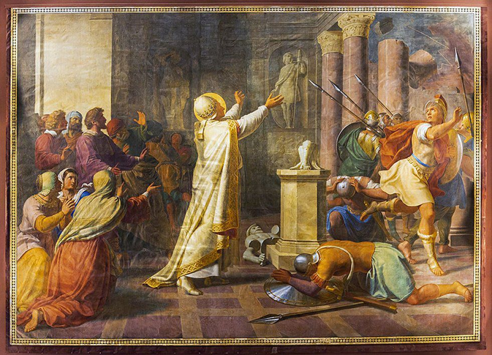 Johann von Schraudolph (1808-1879): Gebet des Hl. Papstes Stephan I., Fresko, Speyerer Dom